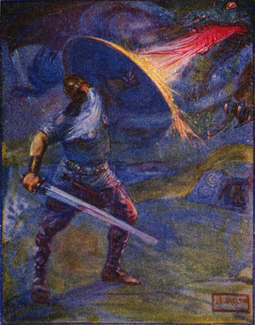 "Now he belched forth flaming fire." An illustration of Beowulf fighting the dragon that appears at the end of the epic poem. Marshall, Henrietta Elizabeth (1908) Stories of Beowulf, T.C. & E.C. Jack, p. 93 Stories of Beowulf-1 Page 122 Image 0002.jpg